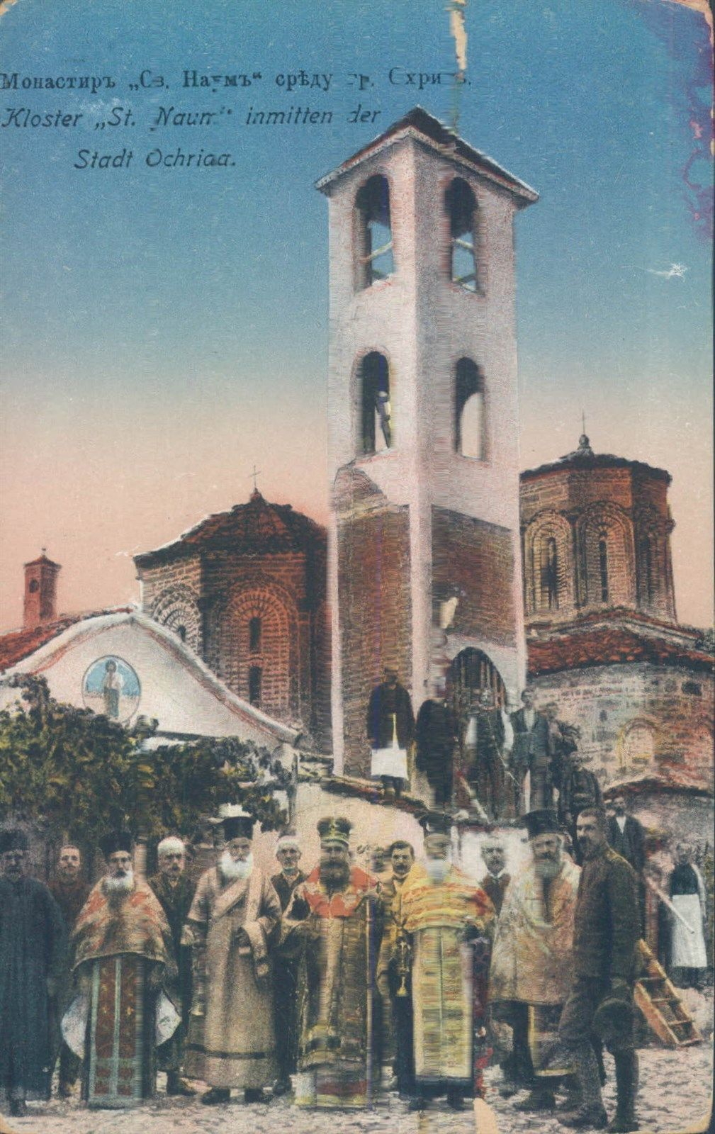 Boris of Ohrid at Sain Namu Monastery.